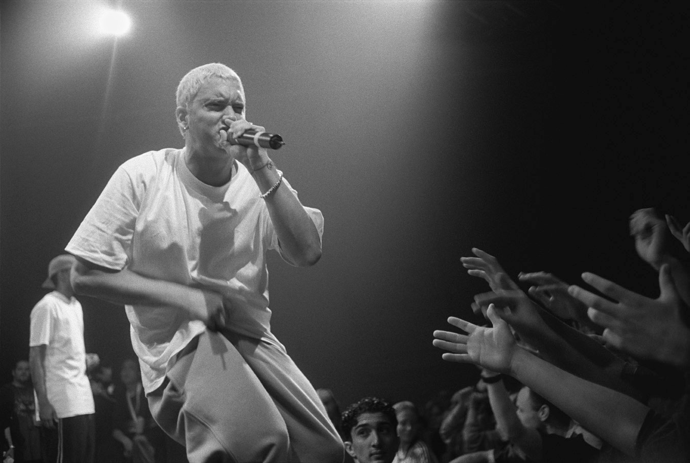 In Munich, Germany, 10.31.99